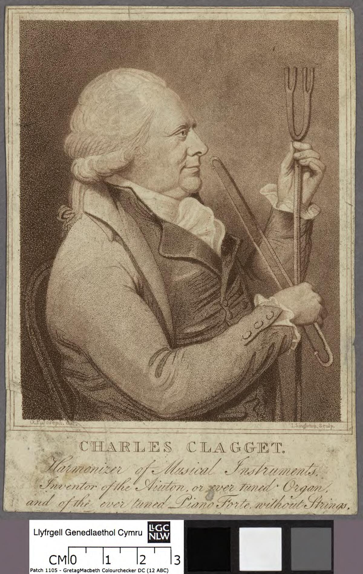 A portrait from the Welsh Portrait Collection at the National Library of Wales. Depicted person: Charles Clagget – Irish musician and inventor of improvements for musical instruments